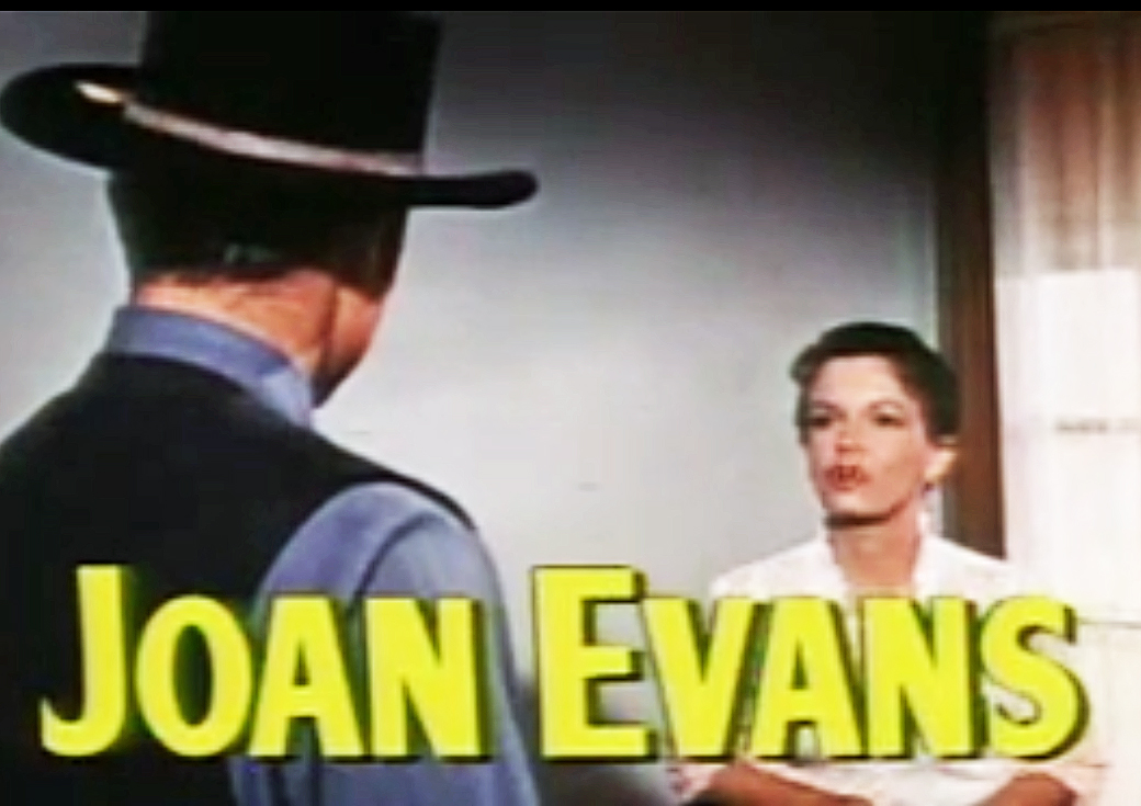 Joan Evans in trailer for "No Name on the Bullet" (1959)